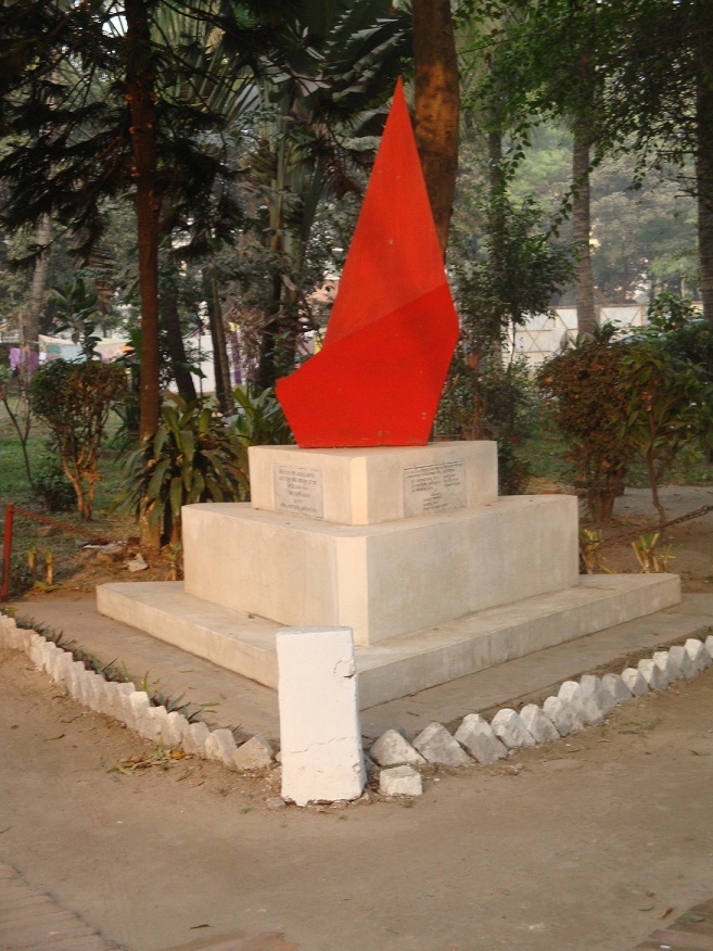 On the 25th March 1971 at the very beginning of the Liberation War in the area of Shahid Minar the intellectuals killed by the Pakistani soldiers :- Dr. Govinda Chandra Dev -- Philosophy Department Dr. Joyotirmoy Guhathakurata -- English Department Dr. Maniruzzaman -- Department of Statistics and family members Akramuzzaman Shamsuzzaman Syed Nurul Wahab